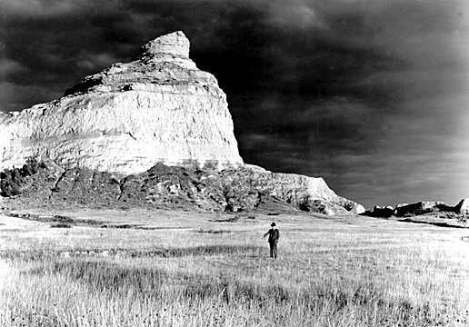 Approximate Year: 1938 Park: Scotts Bluff NB Photographer: Grant, George A. Description: The spectacular Bluff on the North side of Mitchell Pass. Mr. Tom Green of Scotts Bluff, Nebraska, stands on the site of Mr. William H. Jackson's Bull Train Camp of Aug. 3, 1866.